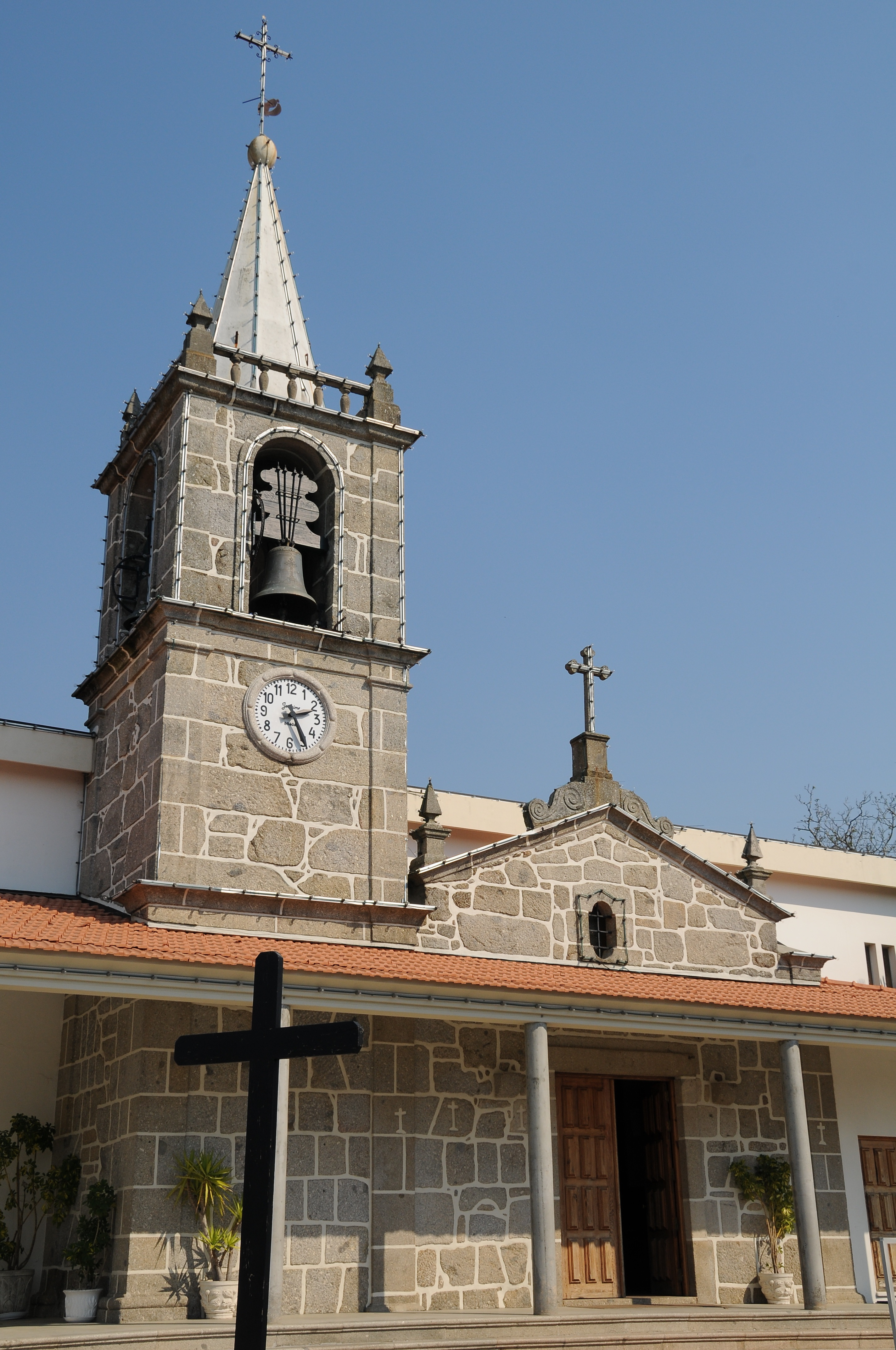 Sao Martinho do Vale Church, in Vila Nova de Famalicao Portugal